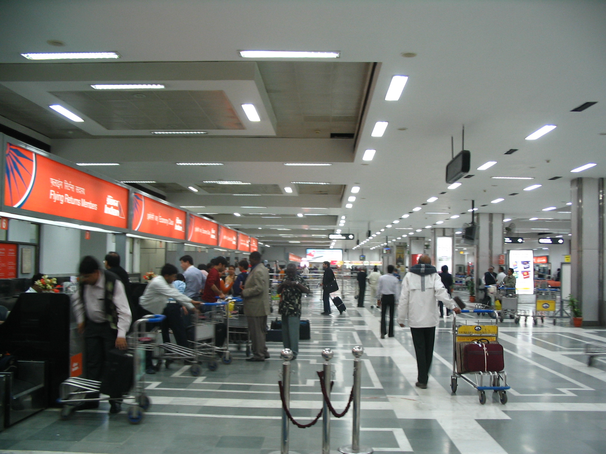 Check-in area of domestic departure terminal 1A of the Indira Gandhi International Airport, New Delhi, India